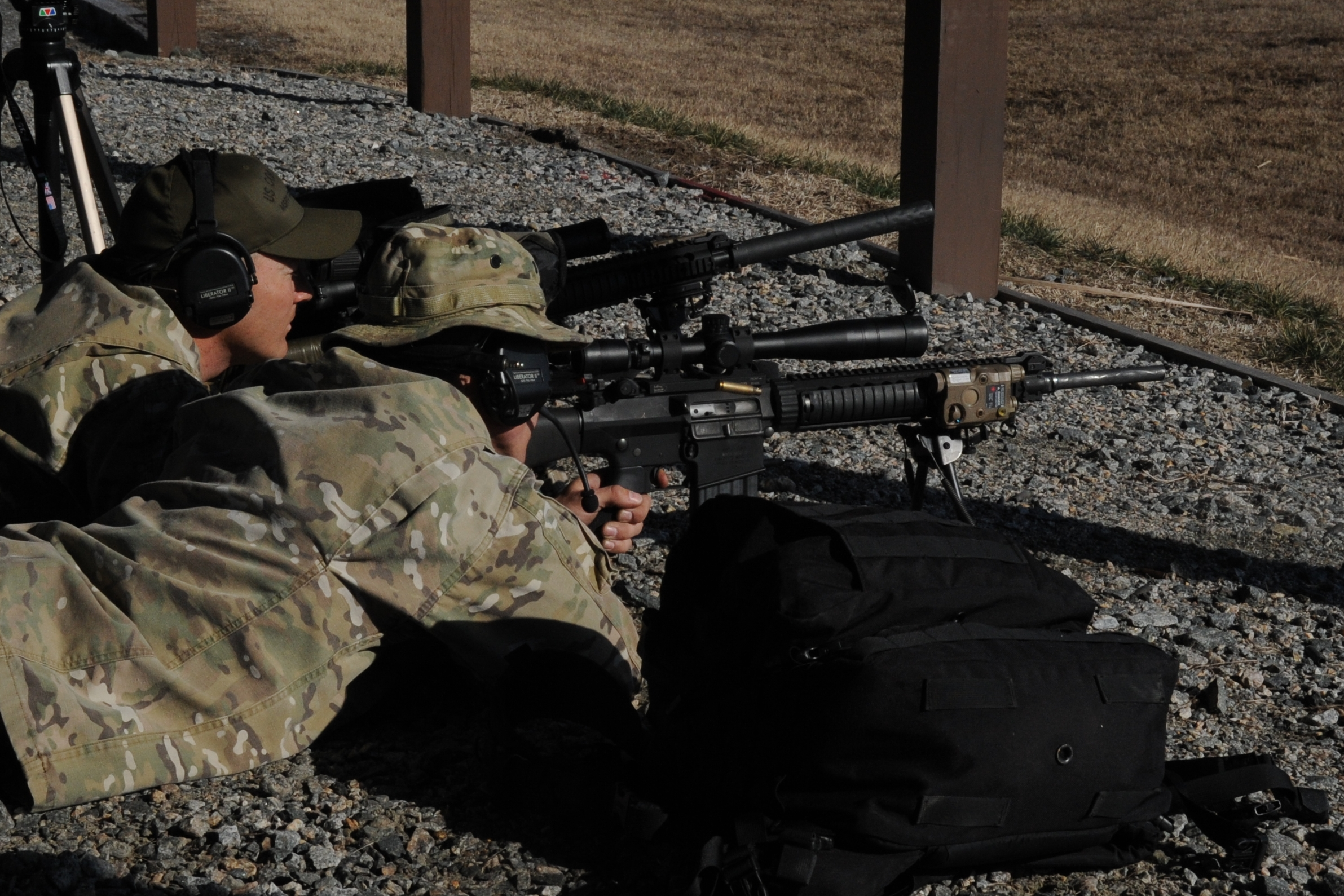 CHESAPEAKE, Va. A Maritime Security Response Team (MSRT) Precision Marksmen Observer Team (PMOT) sight on targets 800 yards down range, Feb. 17, 2011. MSRT precision marksmen are trained to shoot from boats, helicopters and collect data to relay back to command elements.